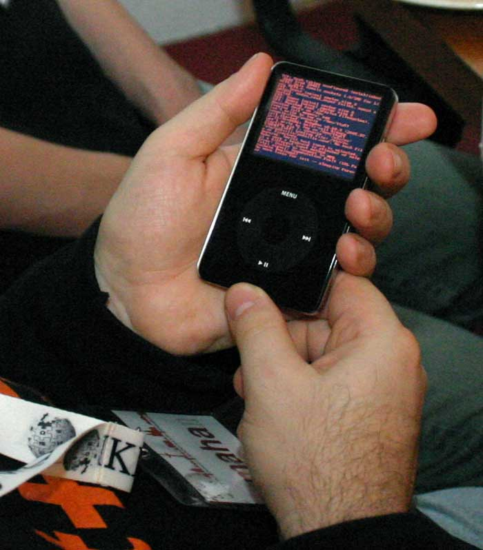 freshly installed ipod linux, booting. during Wikipedia:Workshop Köln